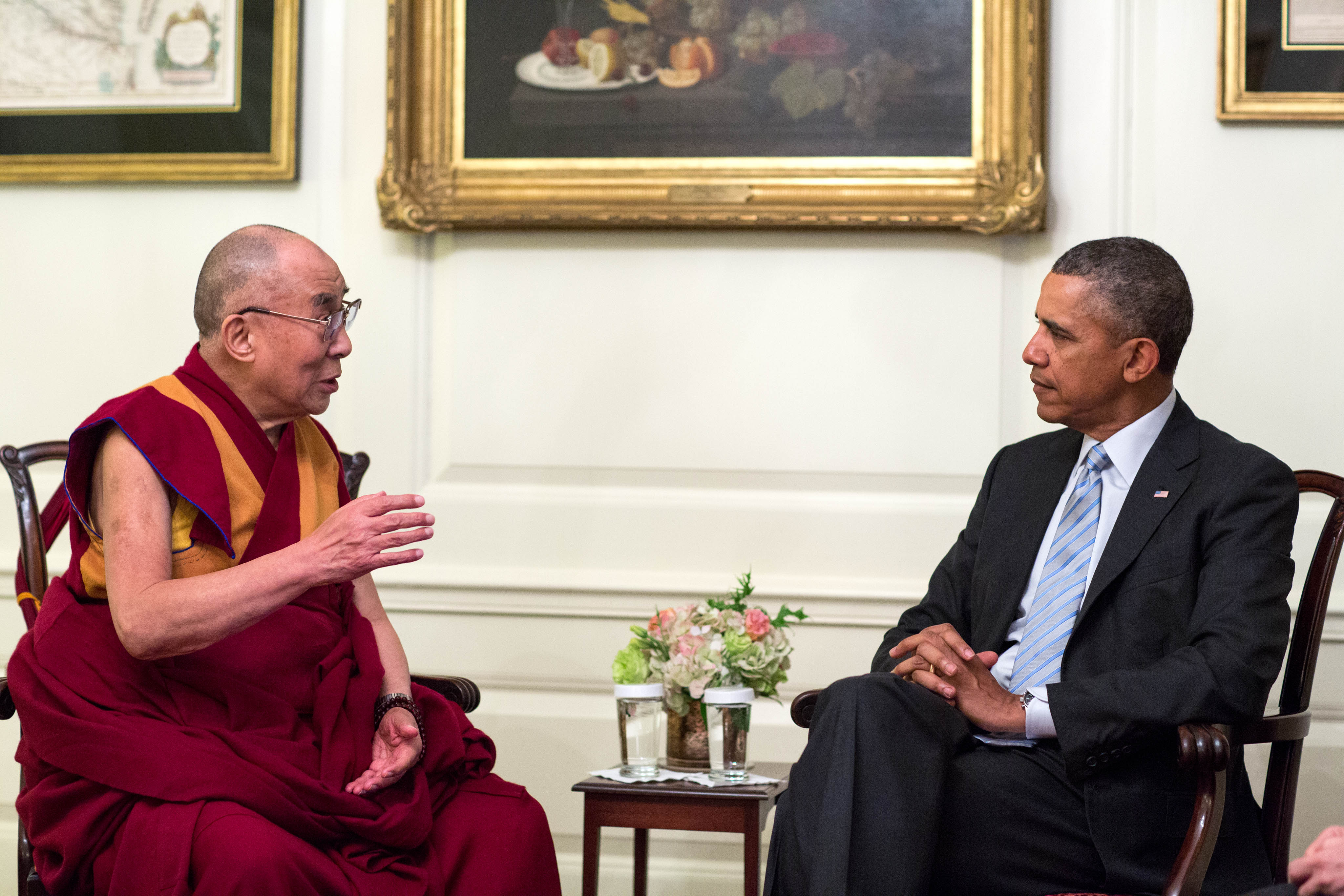 United States President Barack Obama meeting with the Dalai Lama in the Map Room of the White House on 21 February 2014.